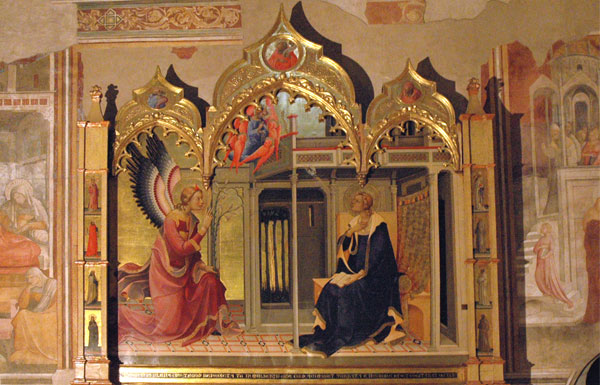 Santa Trinita. Lorenzo Monaco’s Anunciation Florence